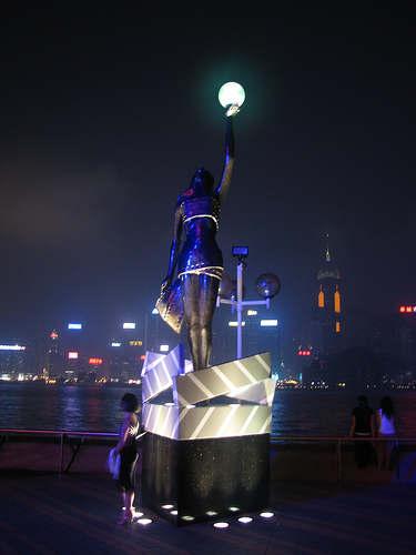 A shot of Hong Kong's night lighting against the Avenue of stars.